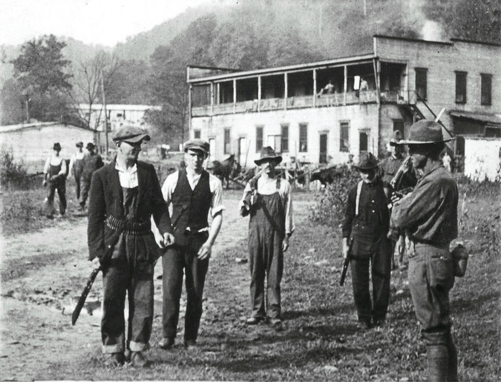 After the Battle of Blair Mountain in 1921 the union miners surrendered to the federal troops and gave them their weapons. Three miners with federal soldier prepare to surrender weapons.